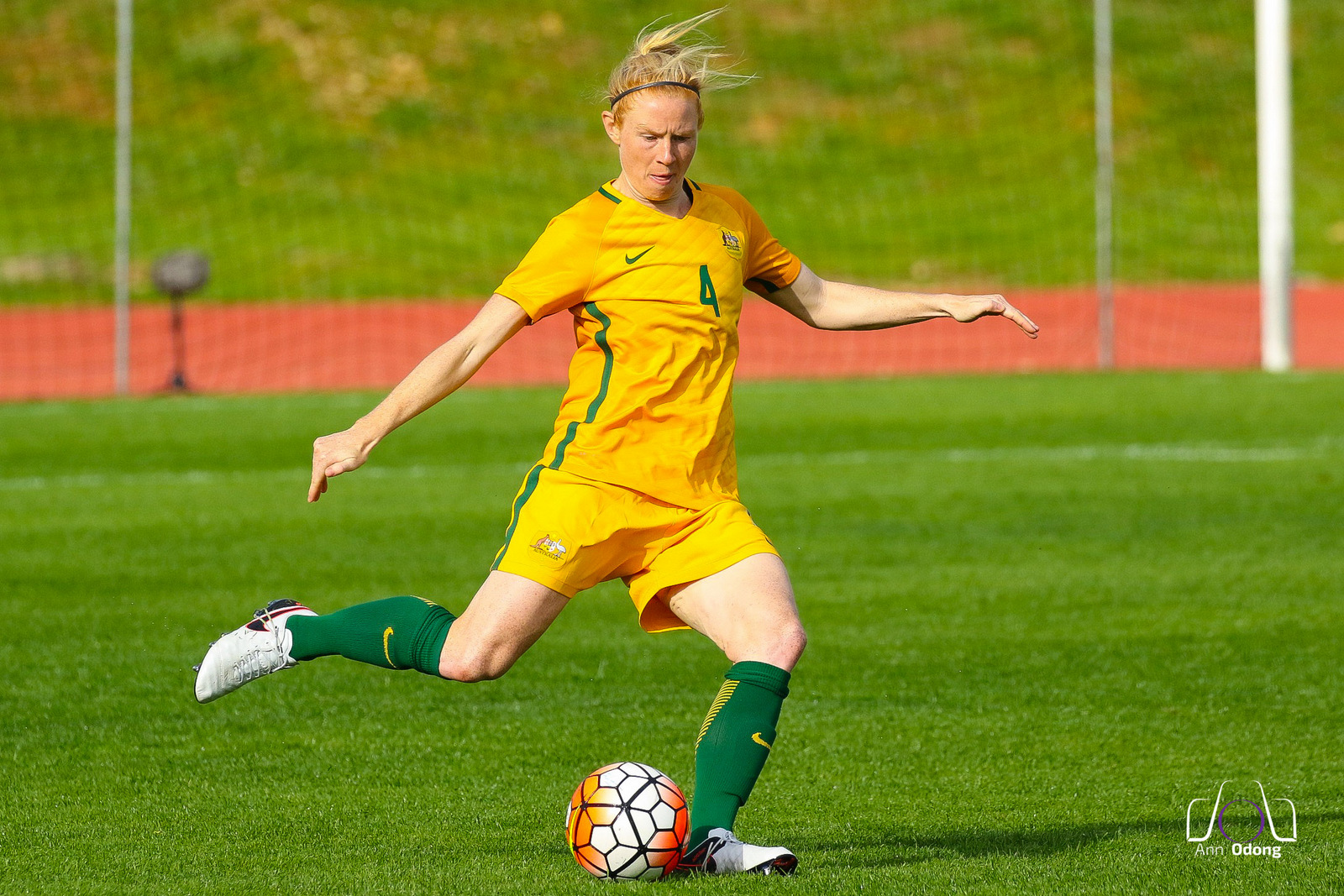 Clare Polkinghorne playing for Australia at the 2017 Algarve Cup